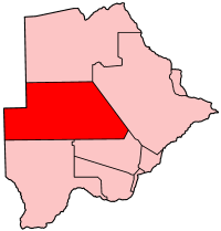 Map of Botswana showing Ghanzi district.